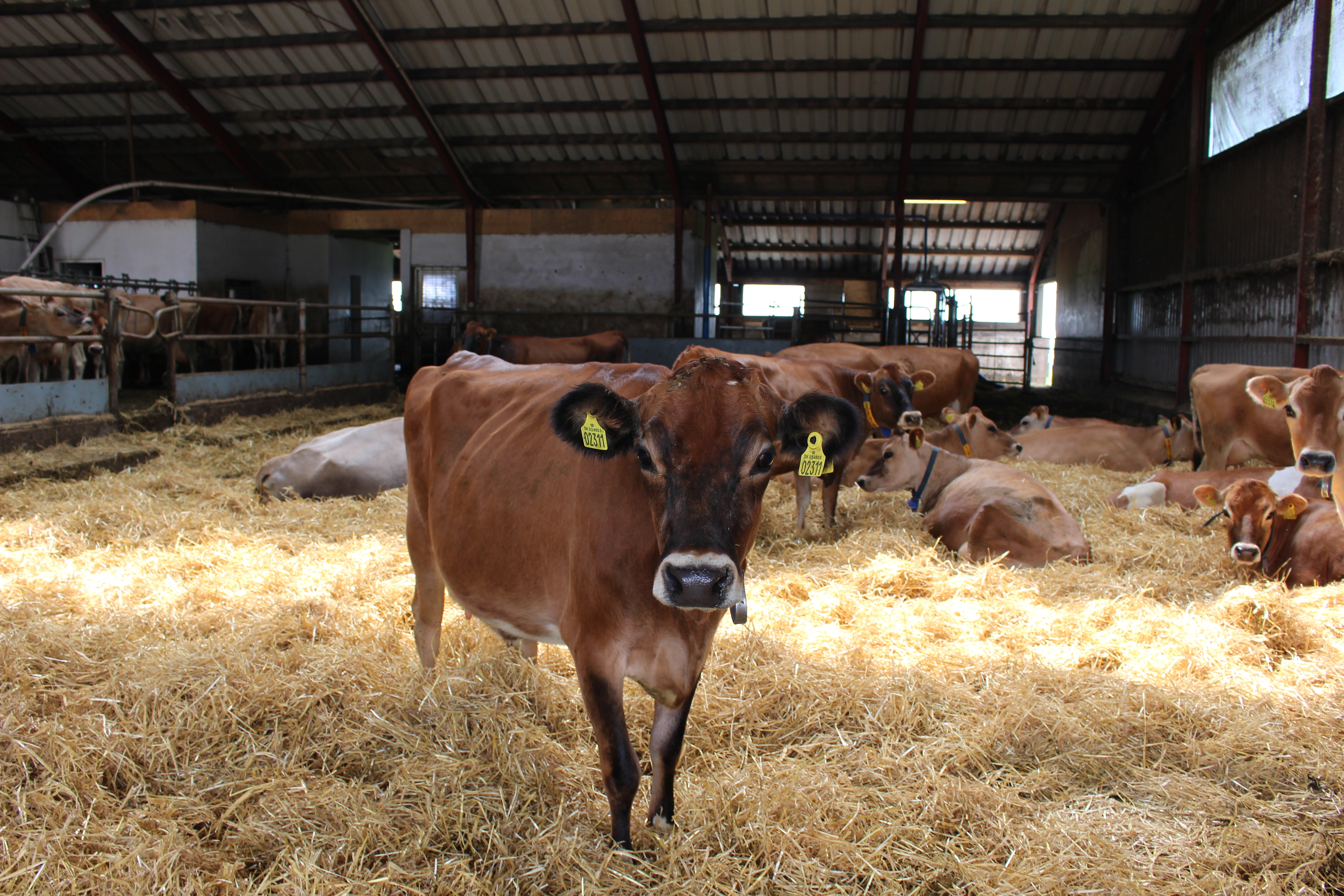 Picture taken at a Danish farm. The cow is housed in a stable with a straw bedding.